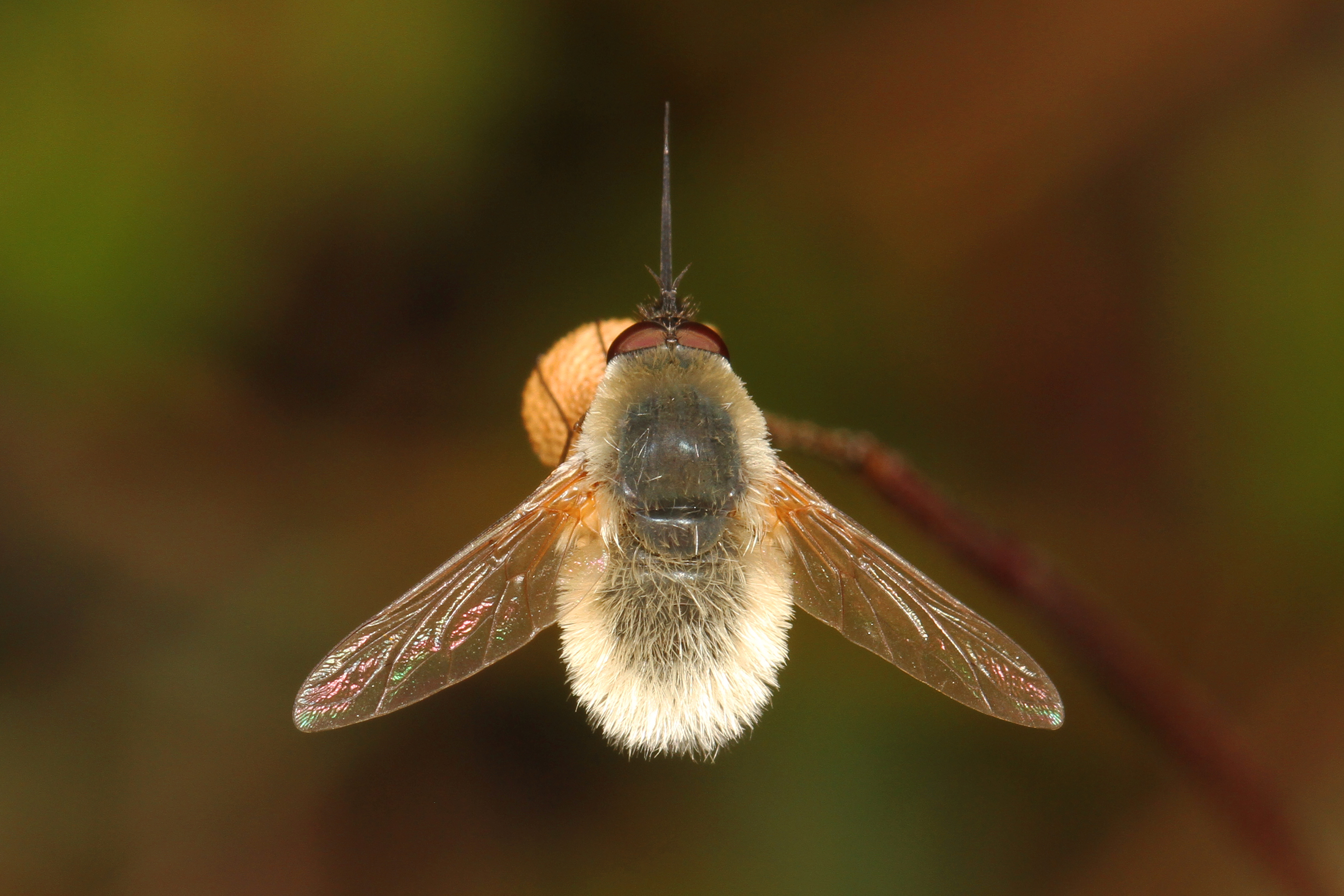 Bee Fly - Systoechus candidulus, Babcock-Webb Wildlife Management Area, Punta Gorda, Florida.